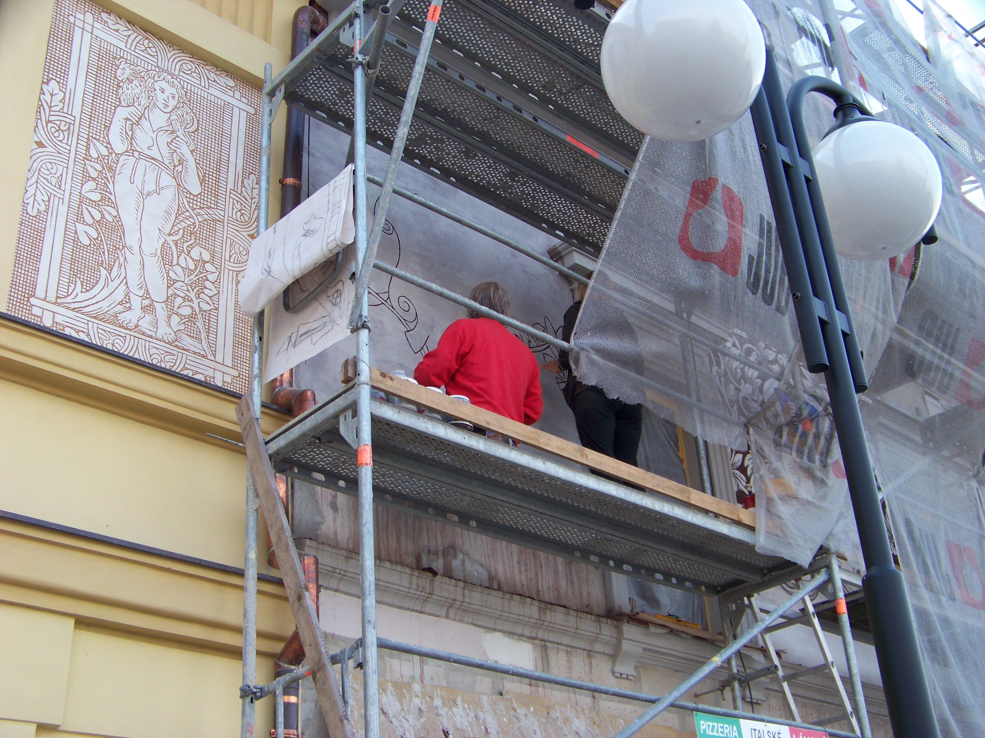 Bechyně, Tábor District, South Bohemian Region, the Czech Republic. T. G. Masaryk Square, the east side, restoration of sgraffito.